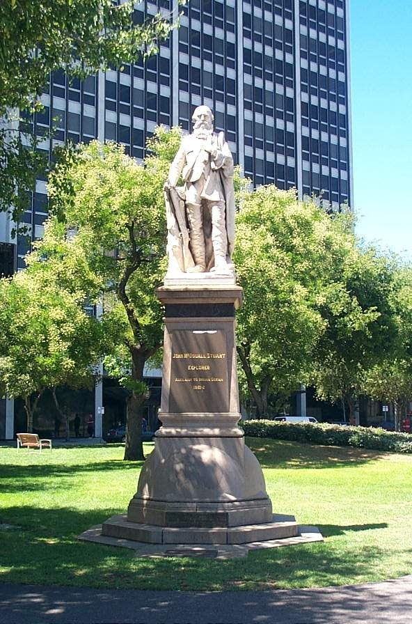 John McDouall Stuart, Victoria Square, Adelaide unveiled 4 June 1904